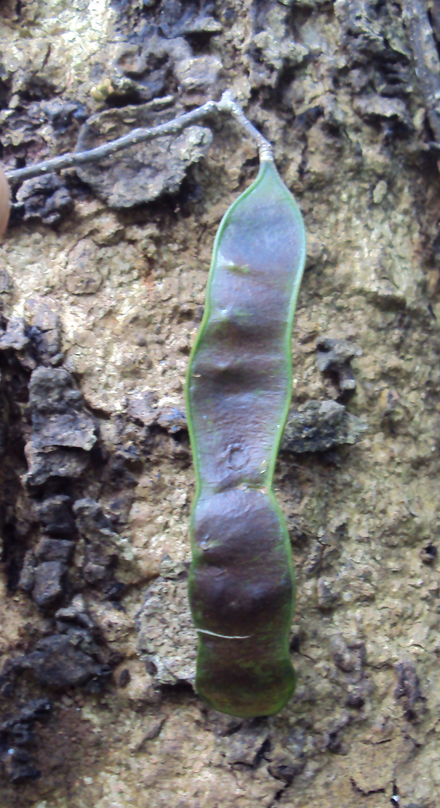 Albizia chinensis seed - ഈയൽവാക